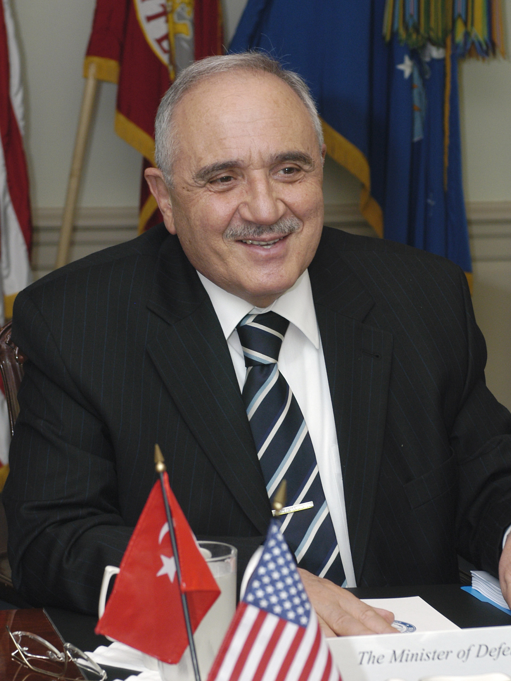 Turkey's Minister of National Defense Vecdi Gonul meets with Acting Deputy Secretary of Defense Gordon England in the Pentagon on June 6, 2005. Gonul and England are meeting to discuss defense issues of mutual interest. DoD photo by Helene C. Stikkel. (Released)